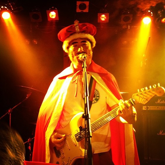 Ōsama during a gig in Club Tops in Kamata, Tokyo on October 12 2012.